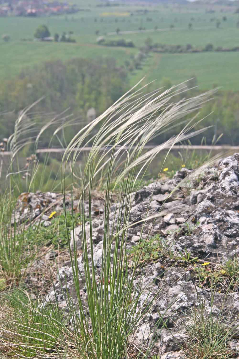 Stipa joannis near Beroun, Czech Republic.